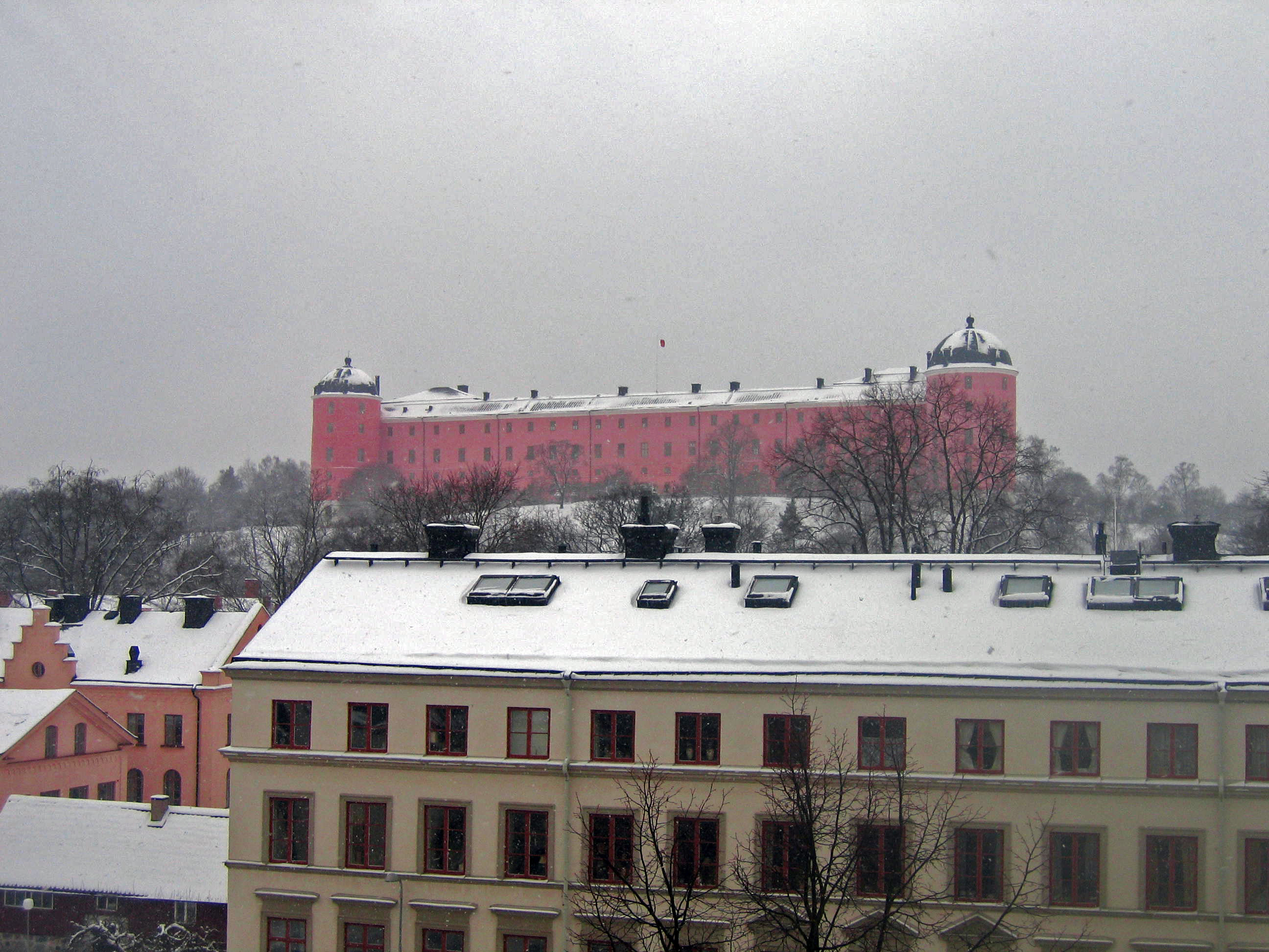 Uppsala Castle seen from a window in the Grand Hôtel Hörnan